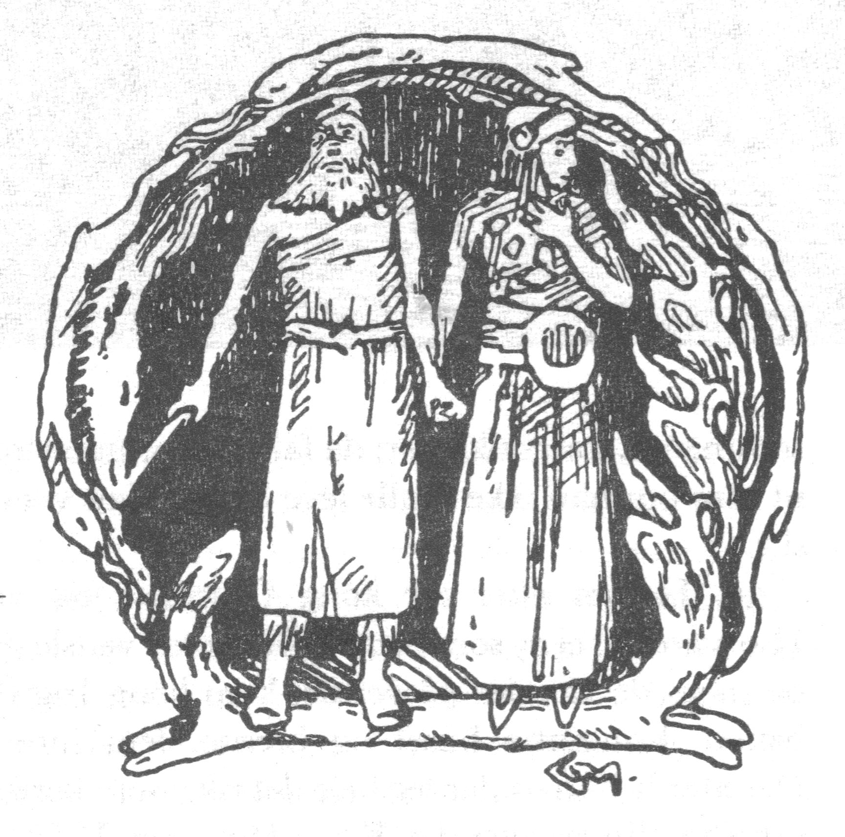 Gerhard Munthe: Illustration for Ynglingesaga. Snorre 1899-edition. 23